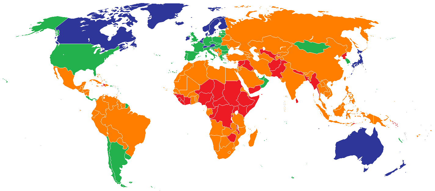 Failed States of 2009.